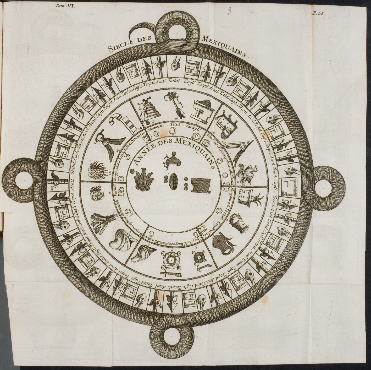 Artwork from Voyage du Tour du Monde (1719, Paris: French Translation of "Giro Del Mondo", 1699)